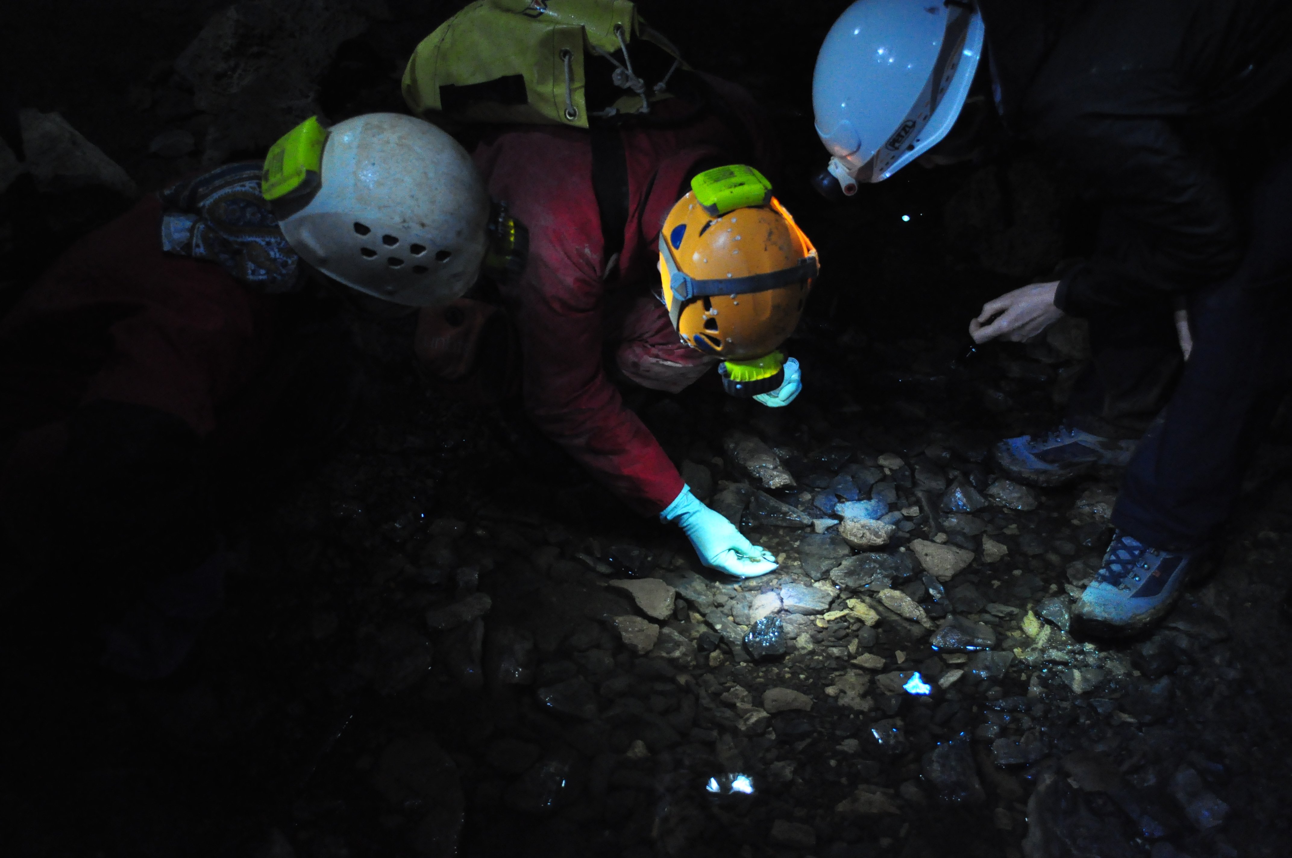 Biospeleologists (Carlos E. Prieto) collecting samples at Urallaga cave system (Galdames, Bizkaia, Basque Country)